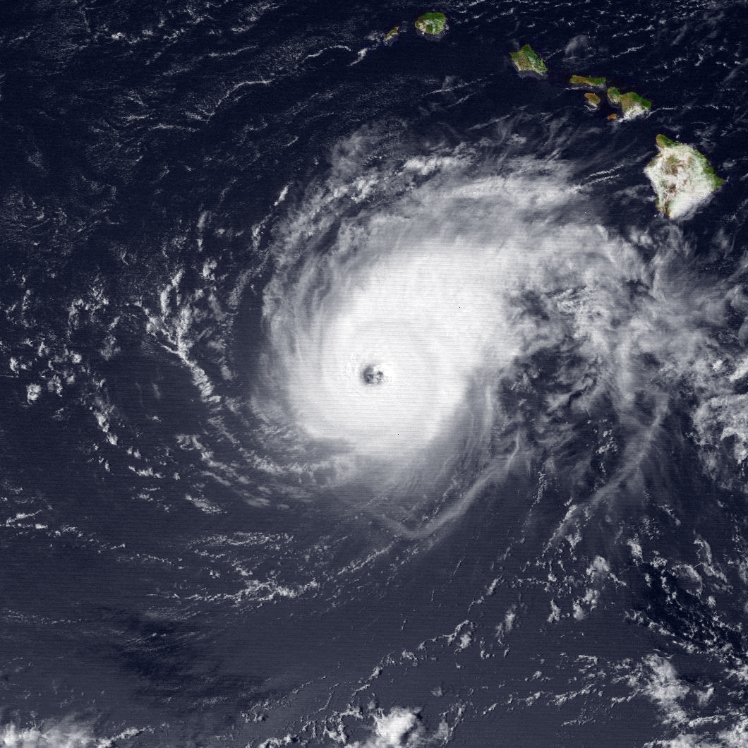 Hurricane Uleki at peak intensity southwest of the Hawaiian Islands on September 3, 1988